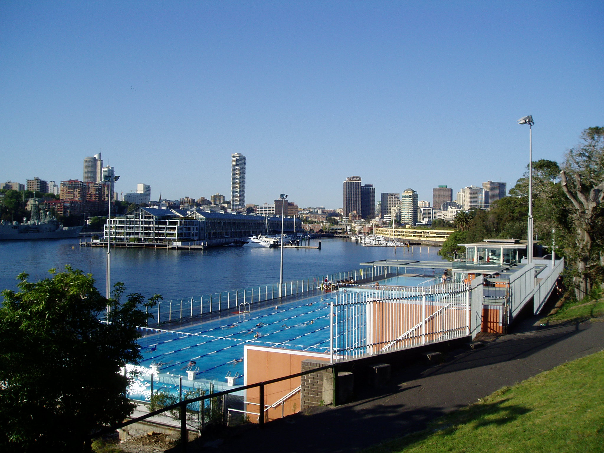 The shore of Woolloomooloo Bay, overlooking Andrew (Boy) Charlton Pool, with Finger Wharf in the background.